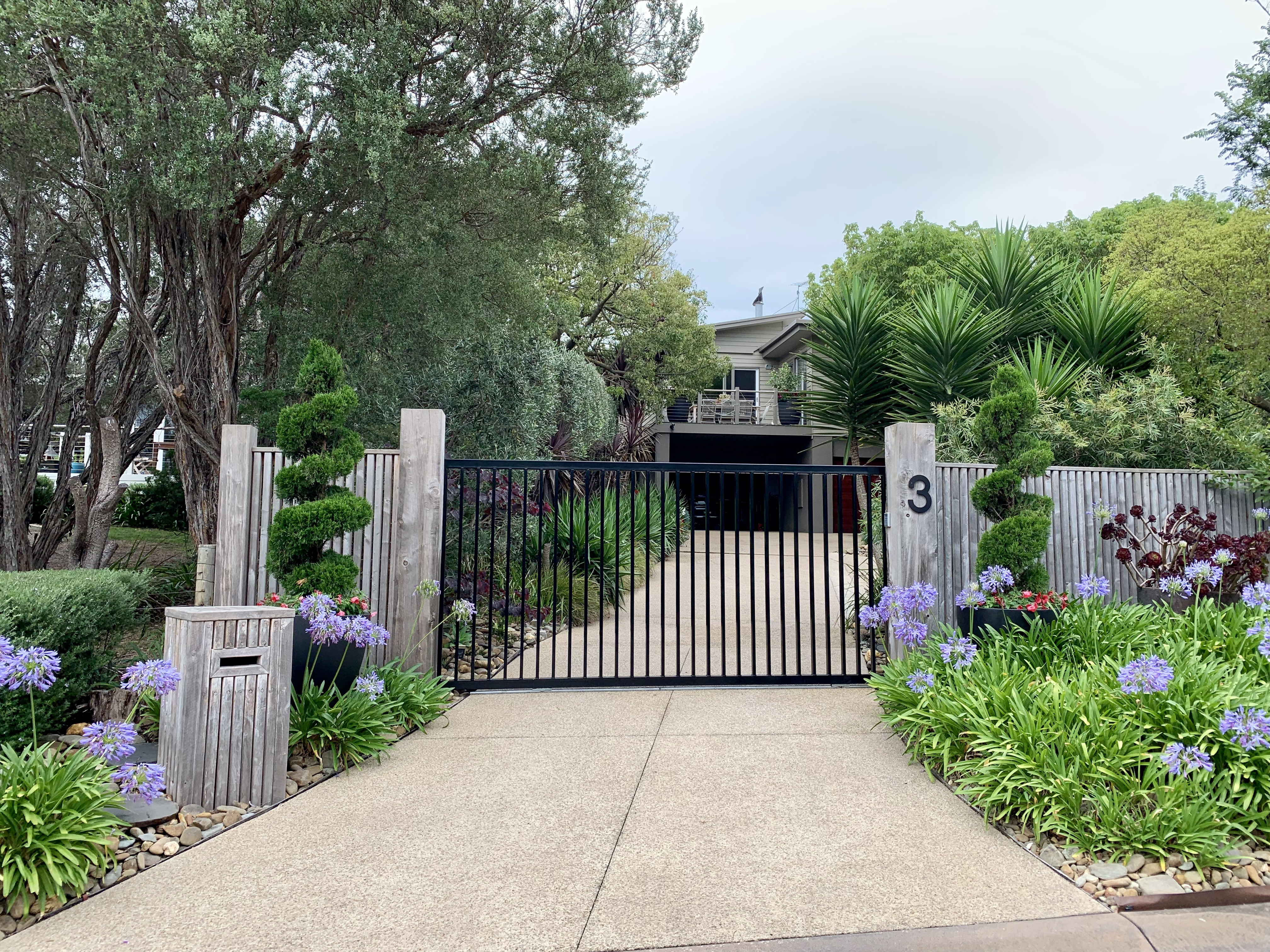 House and the front yard in Blairgowrie, Victoria